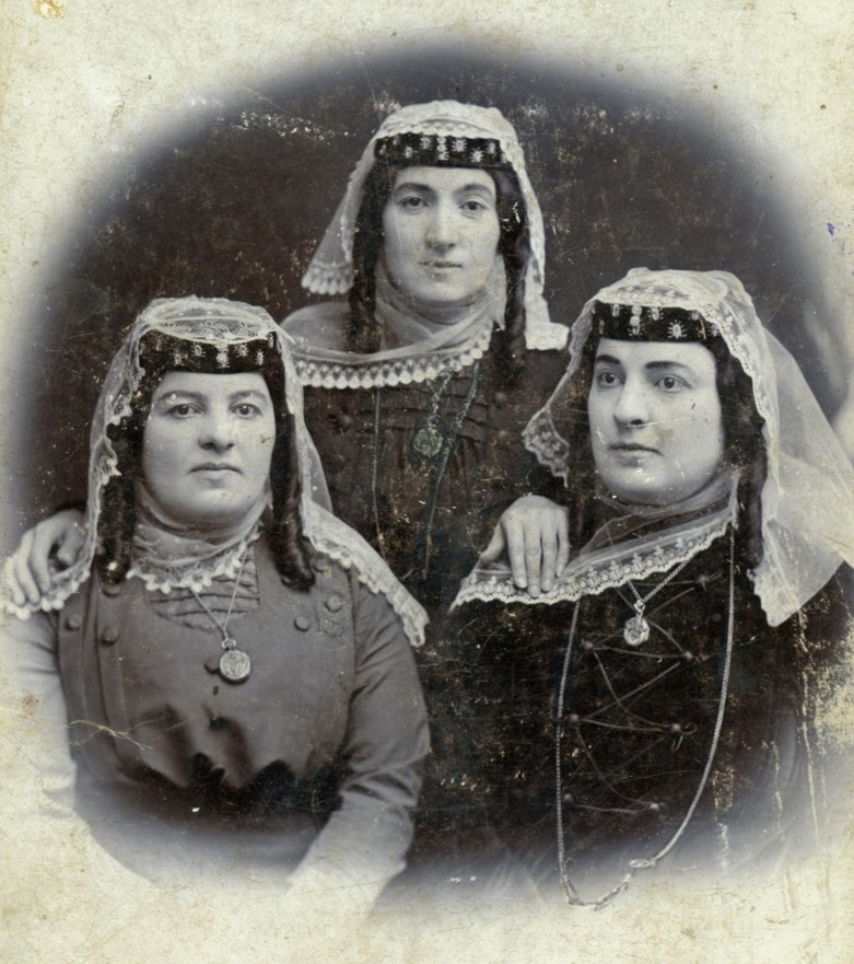 Sisters Ana, Babale, Ludmila Dvals. Circa 19th century photo